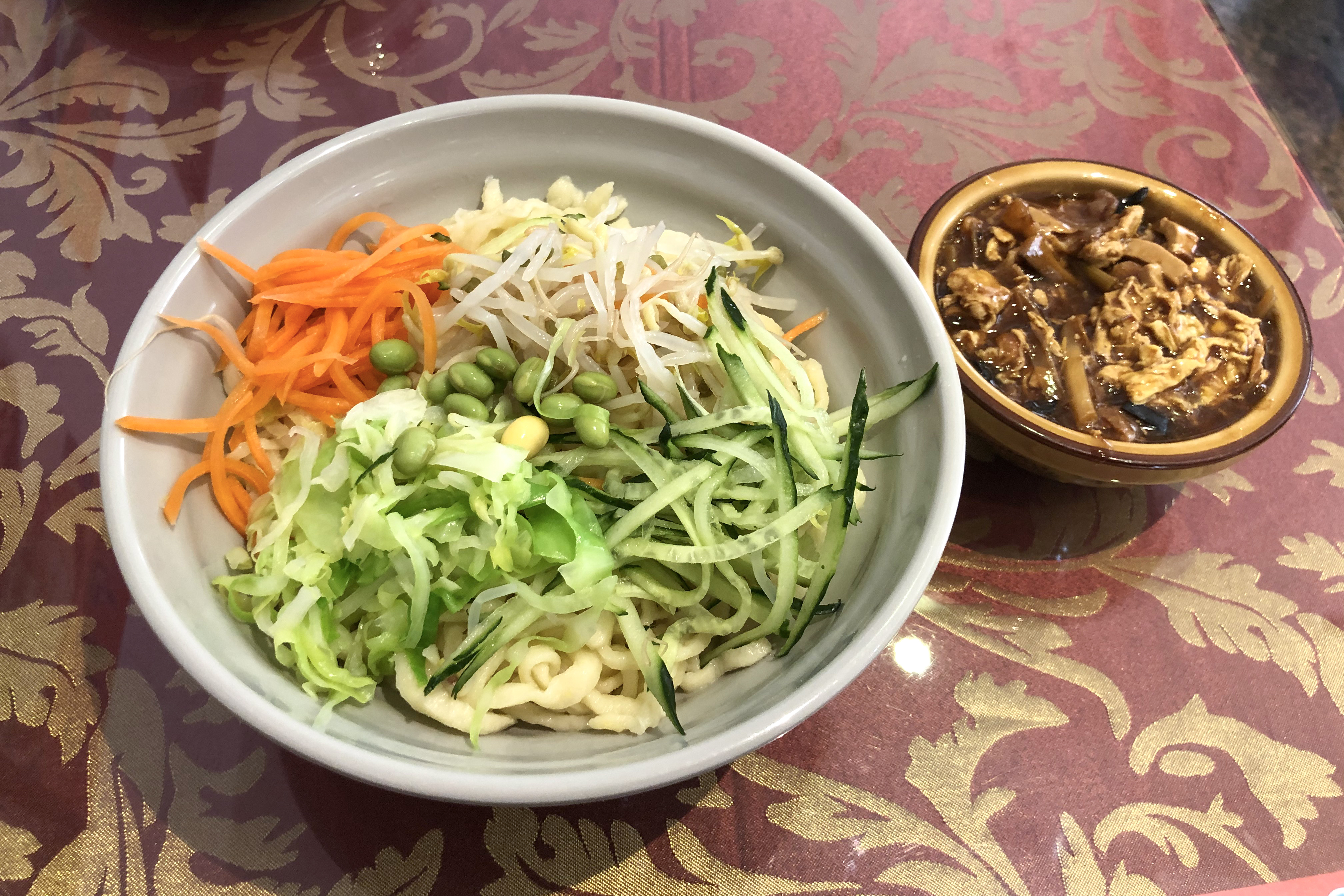 In Tianjin, noodles mark celebration!